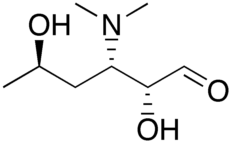 chemical structure of desosamine